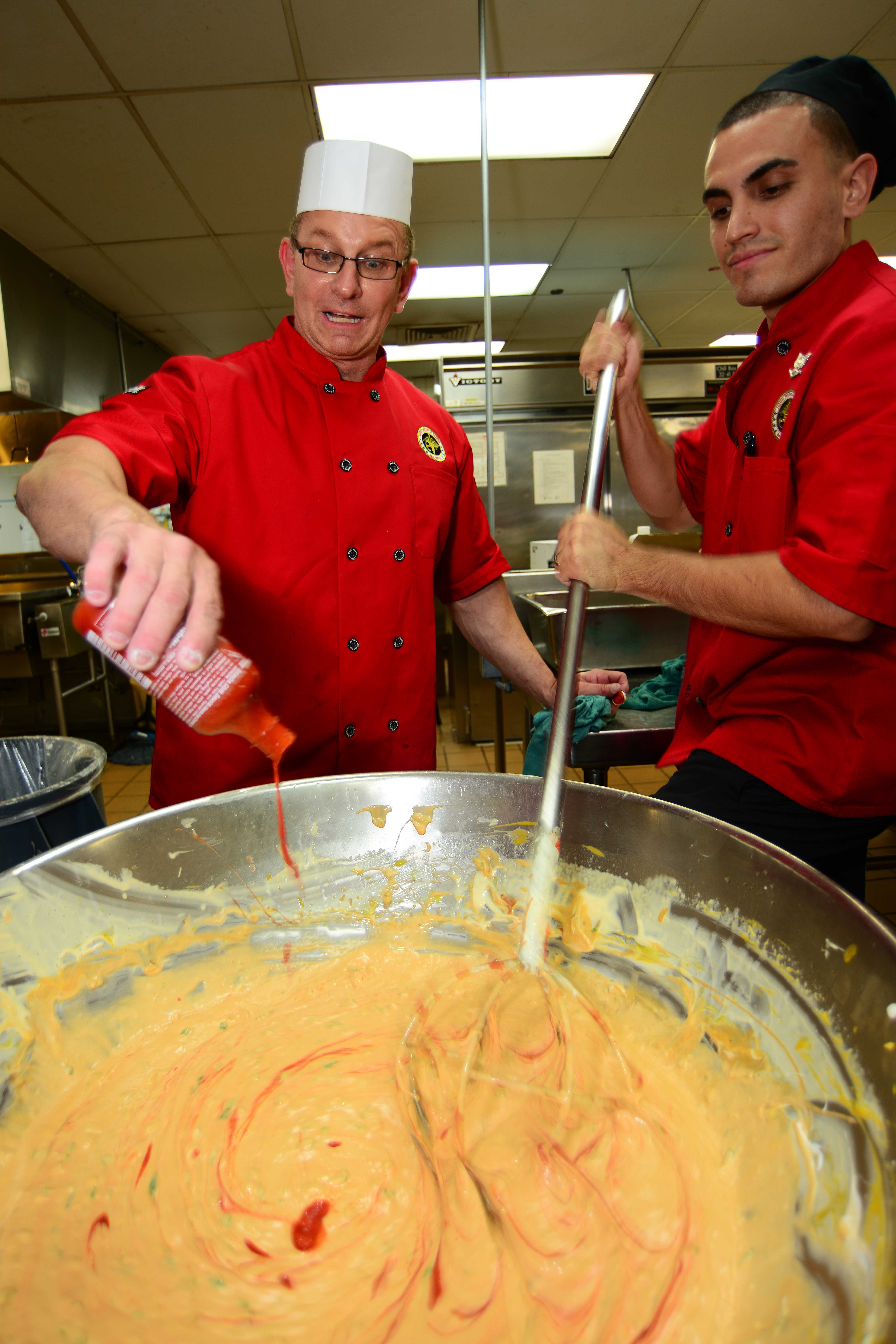 SAN DIEGO (Oct. 19, 2012) Celebrity Chef Robert Irvine prepares food with Culinary Specialist 3rd Class Cordero Cisneros before an appreciation day for staff, wounded, ill and injured patients and family at Naval Medical Center San Diego. The Gary Sinise Foundation hosted the event, which featured the band Stolen Silver, a barbecue lunch, appearances by the Cirque du Soleil Street Team, and special guests from the television show "CSI: NY." The U.S. Navy has a 237-year heritage of defending freedom and projecting and protecting U.S. interests around the globe. Join the conversation on social media using #warfighting. (U.S. Navy photo by Mass Communication Specialist 2nd Class John Philip Wagner Jr./Released) 121019-N-TP834-014